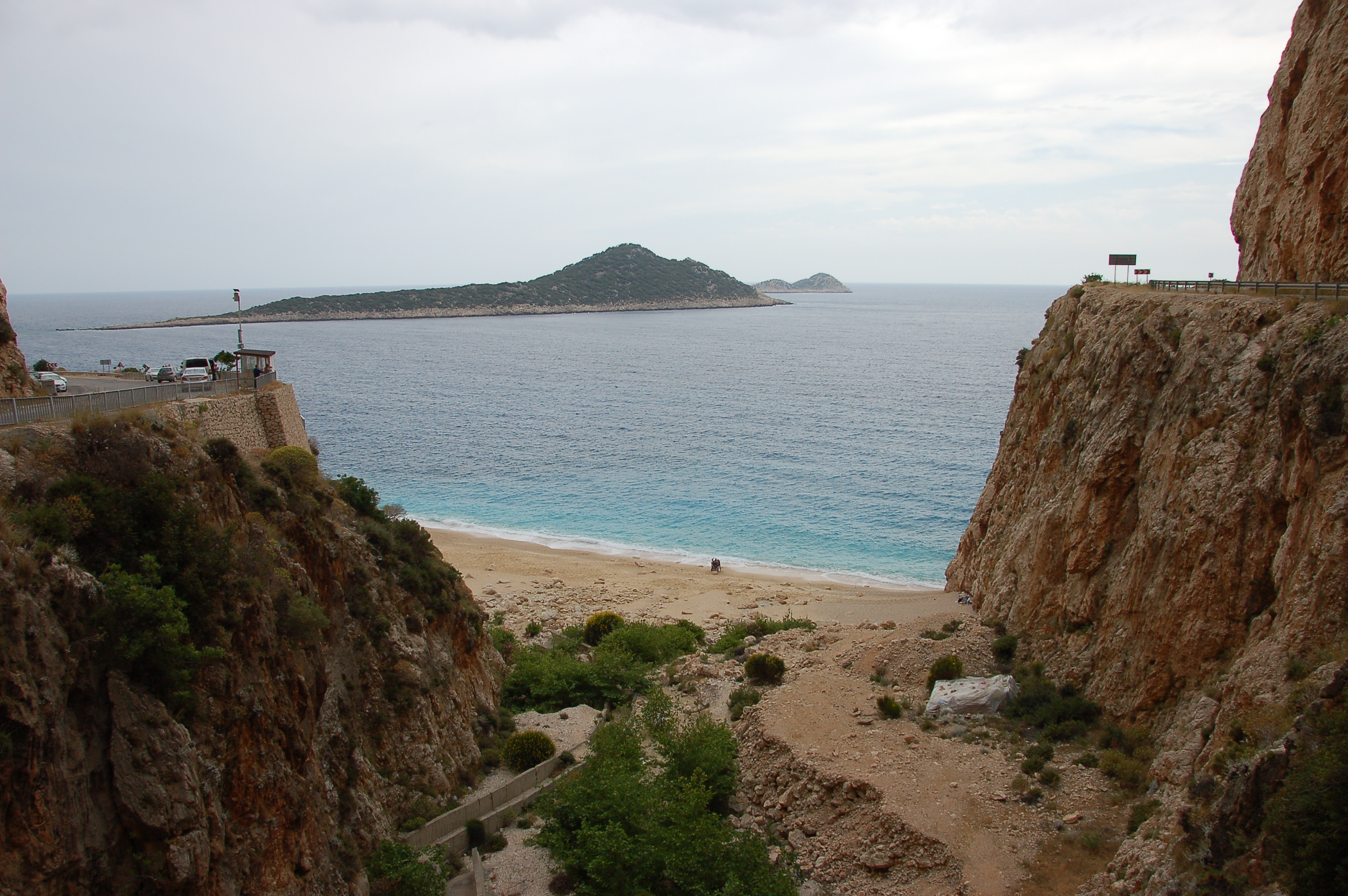 Kaputaş Beach from bridge